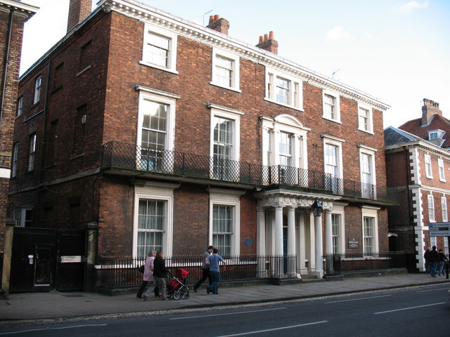 Bootham School The main building of Bootham School faces out on to Bootham, a street with some fine Georgian houses. This one was built in 1804 for Sir Richard Vanden Bempde Johnstone.